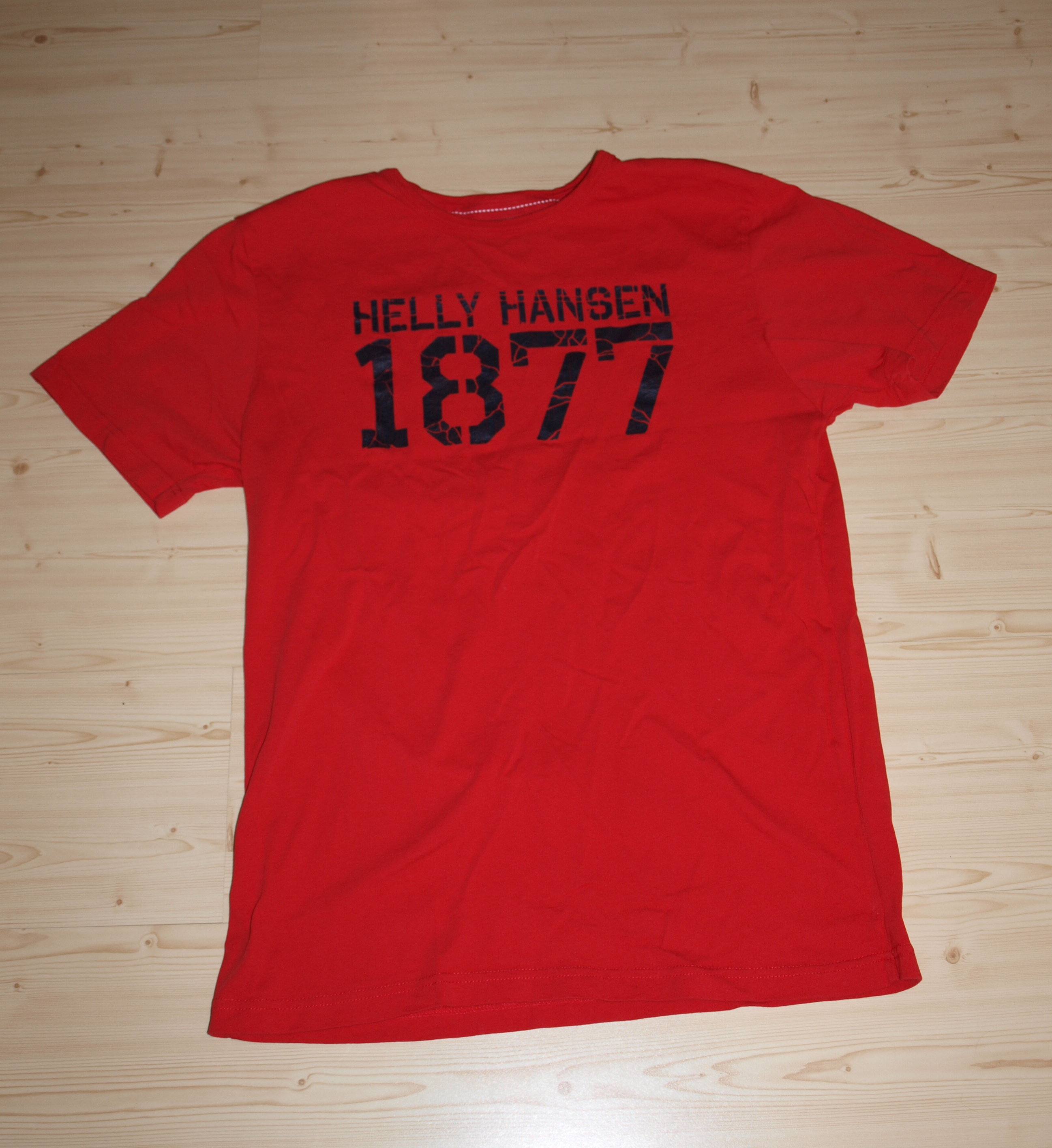 Helly Hansen t-shirt